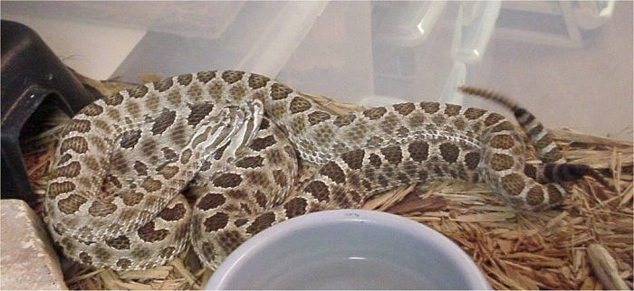 Pair of mating Desert Massasauga Rattlesnakes, Sistrurus catetanus edwardsi. Animals courtesy of Austin Reptile Service.